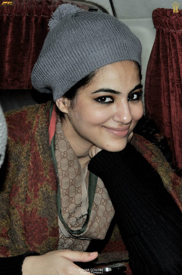 Annie Khalid on one of her tours